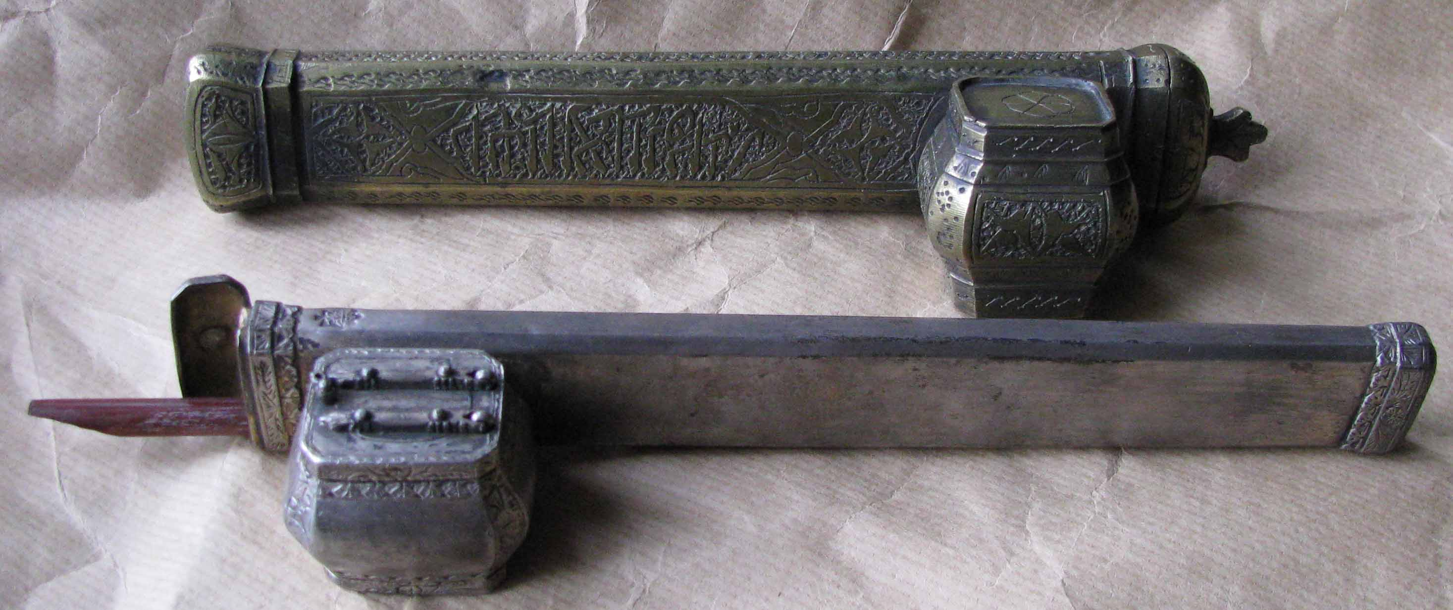 inkstand pencase inkpot hokka divit